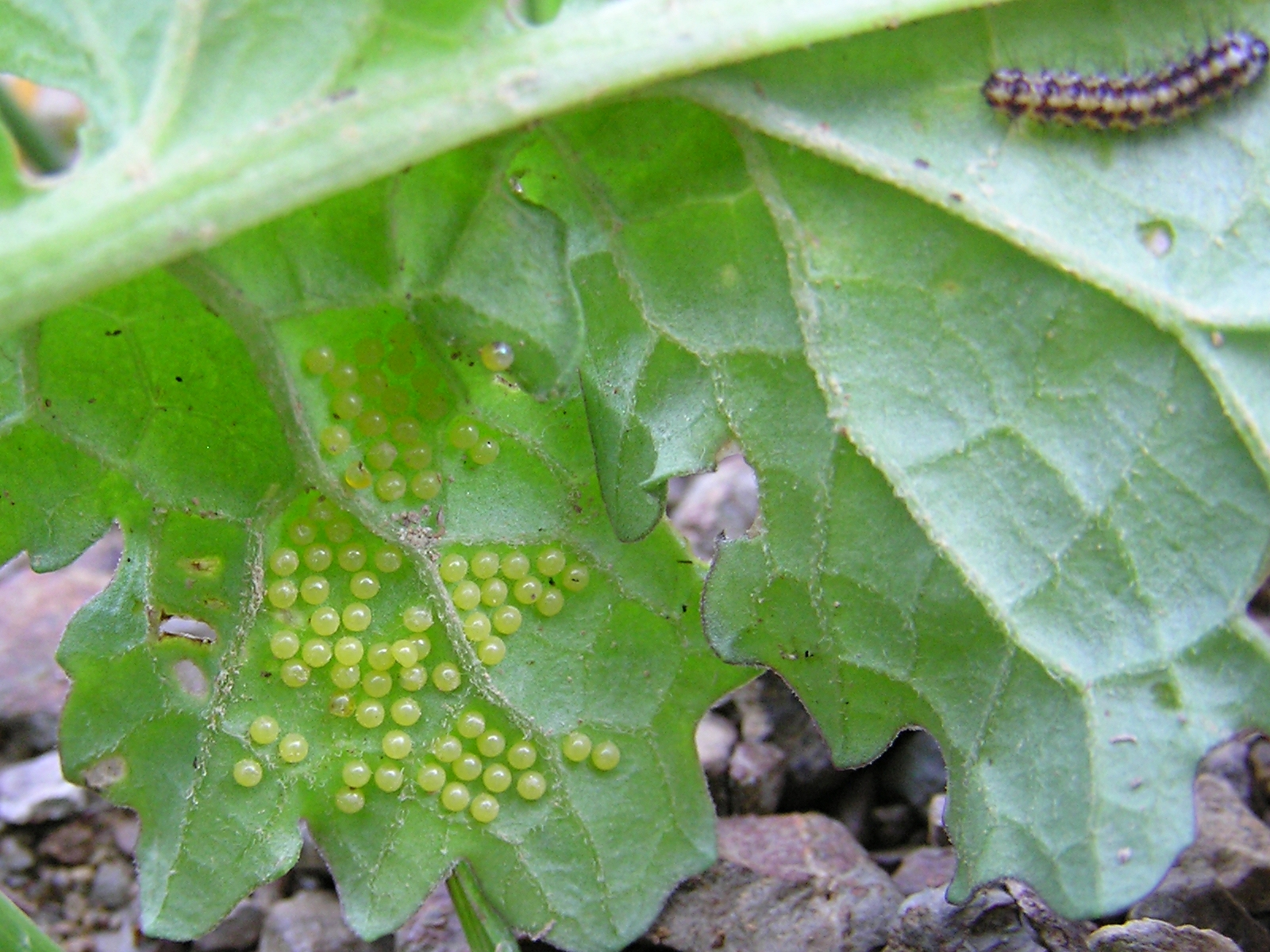 Magpie moth (Nyctemera annulata) eggs on ragwort plant, Wellington, New Zealand